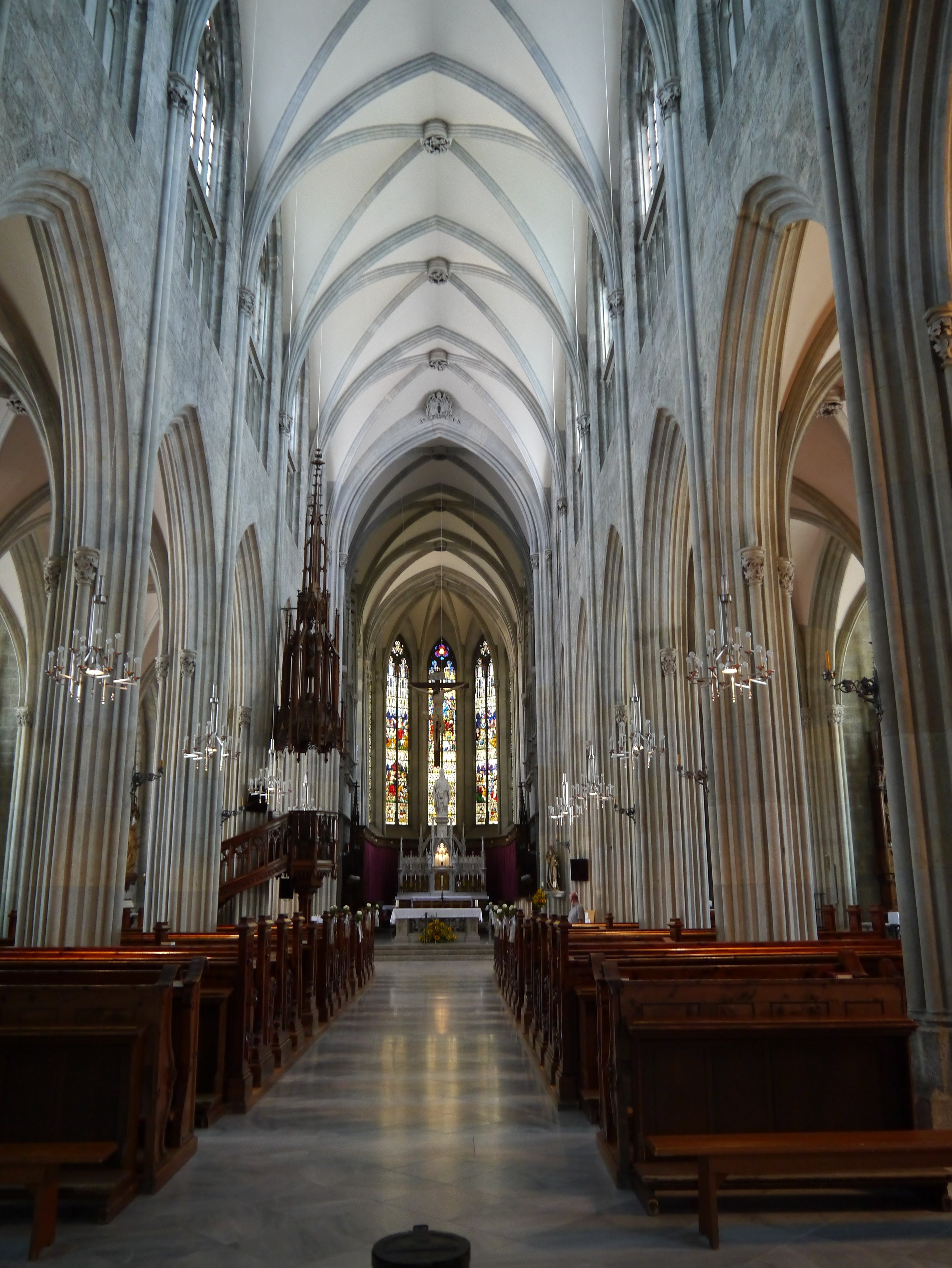 Nave of Admont Abbey Church, Admont, Styria